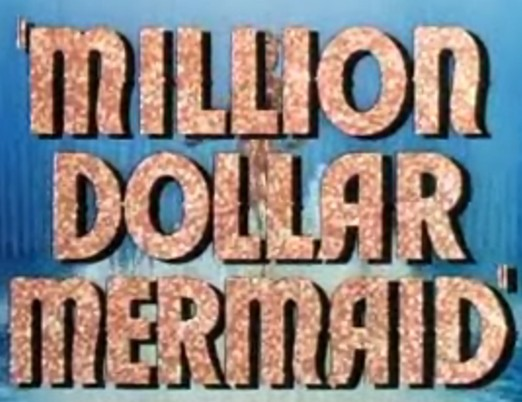 Cropped screenshot of the film title from the trailer for the film Million Dollar Mermaid.